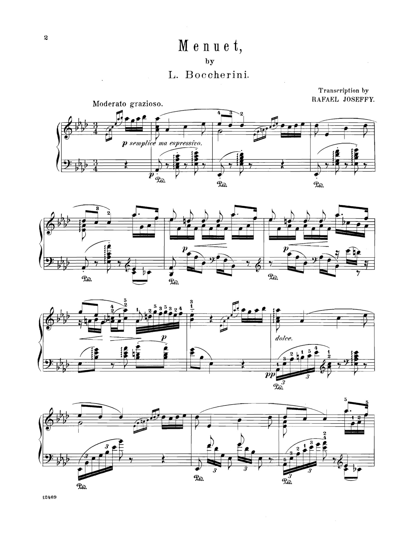 This is the first page of an piano arrangement of Boccherini's String Quintet in E Major.